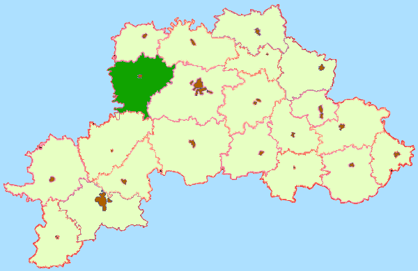 Mogilev Region map by Al Silonov